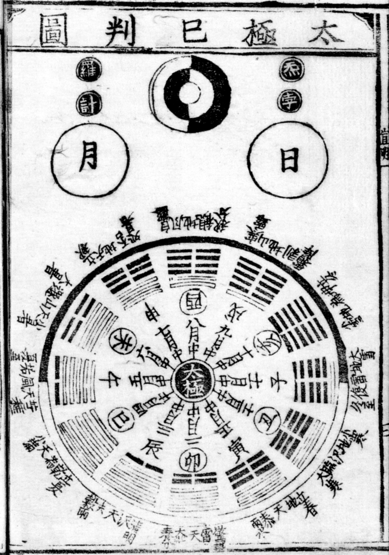 From Semmei lunar calendar